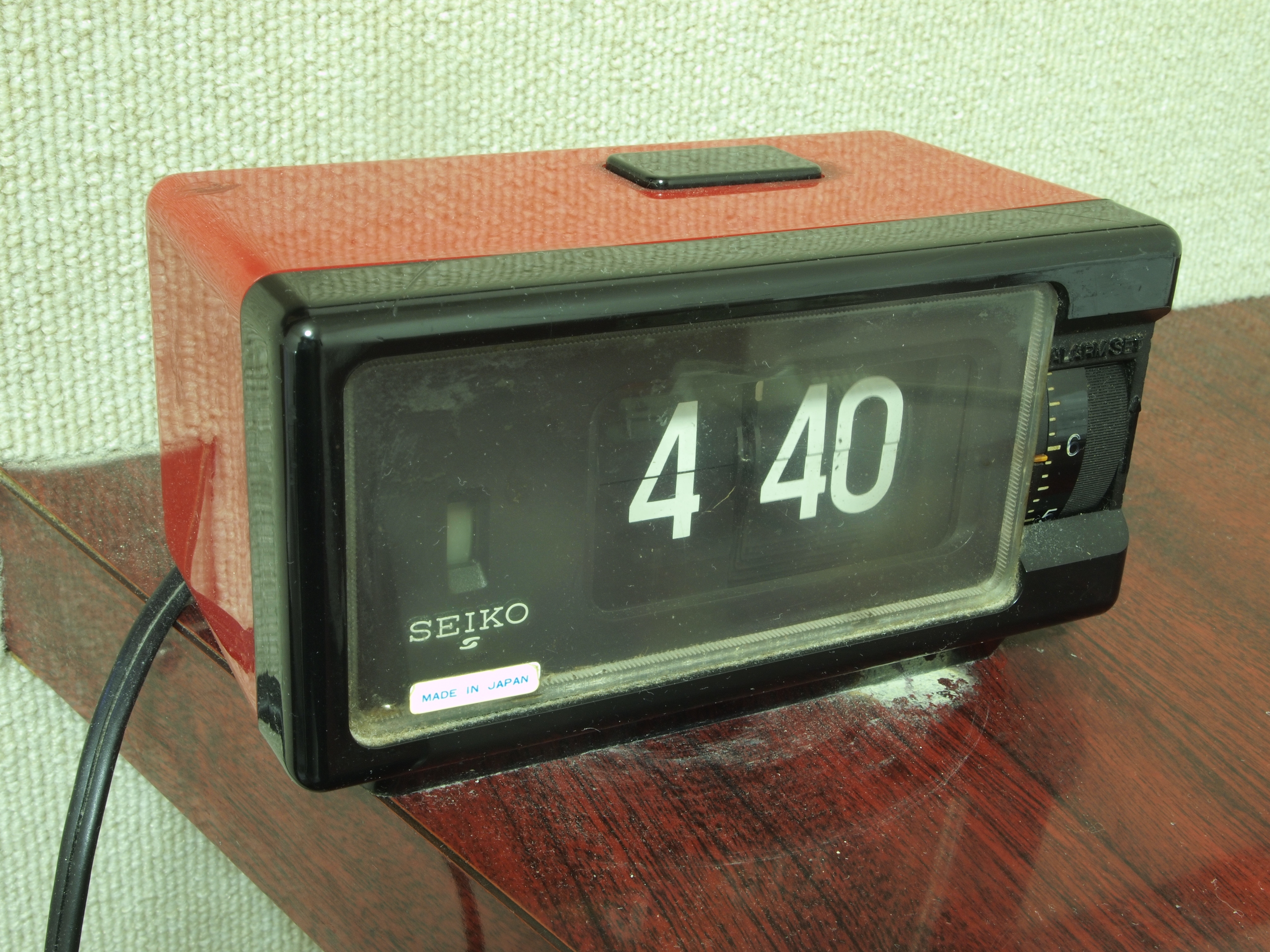 Seiko split-flap clock. It displays the time with digits on flaps attached to rotating wheels turned by an electric motor powered by house current. Unlike later quartz digital clocks that keep time with a quartz crystal, this is a synchronous clock that keeps time by the oscillations of the AC electric power supply.